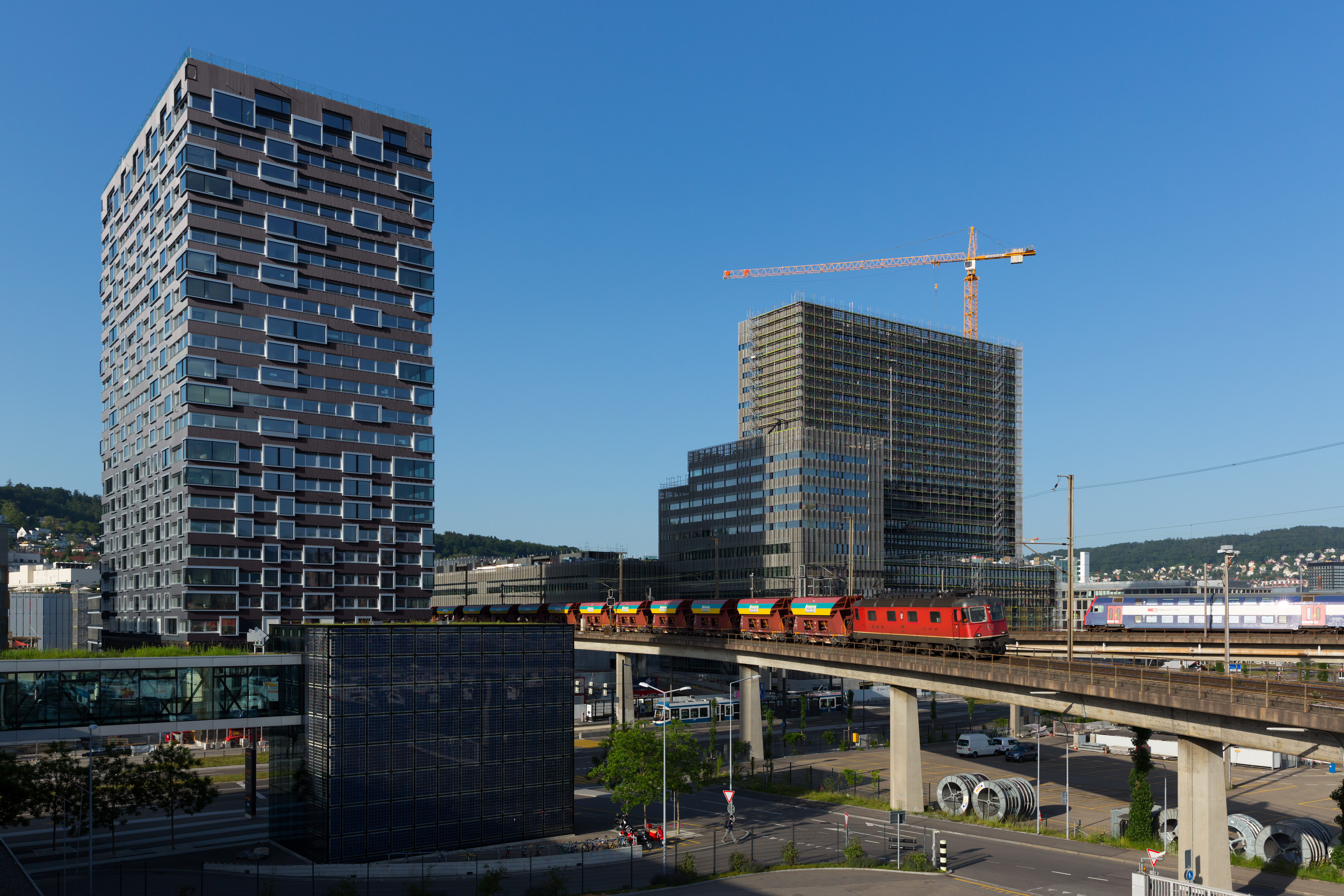 An Re 6/6 with an empty gravel train (Hinwil - Hüntwangen) is taking the single track branch of the Hardturm viaduct, while a DPZ is waiting for it to clear the track. Zurich, Switzerland.